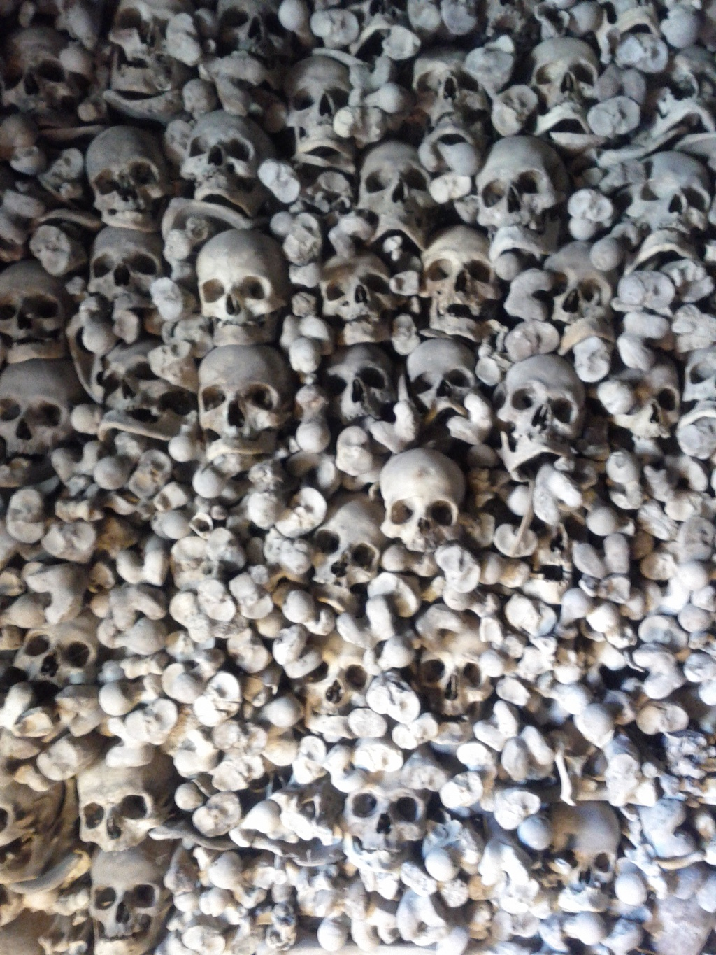 Ossuary in Wamba (Valladolid, Spain)